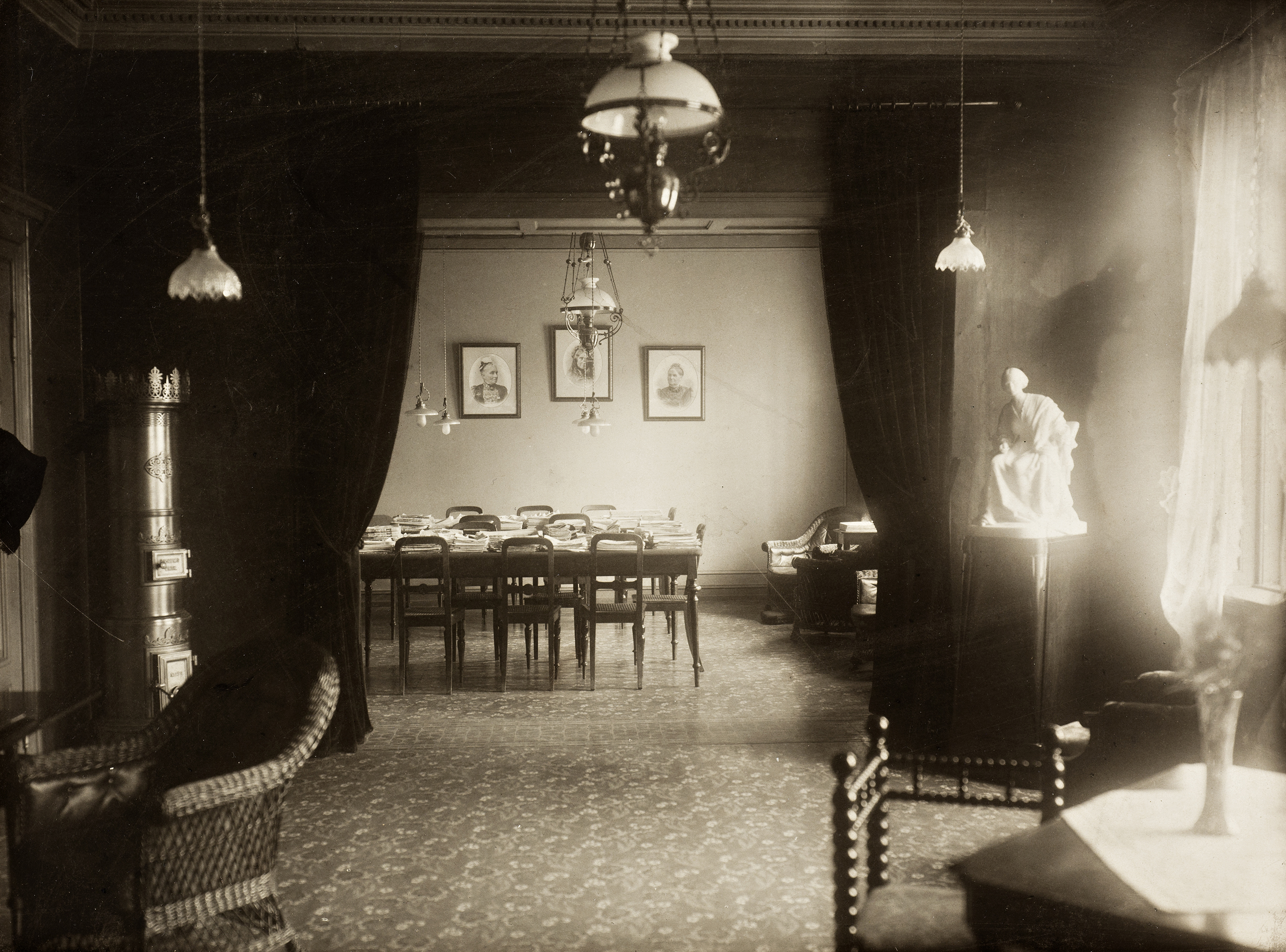 Beskrivelse / Description: Tekst på forsiden: "Læsesalerne er aapne 9 fm - 10 em. Bibliotek-tid: 12-3 og 5 1/2 - 7 1/2". Dato / Date: ukjent / unknown Sted / Place: Oslo, Kristian Augusts gate Fotograf / Photographer: Thea Nielsen (Kristiania) Digital kopi av original / Digital copy of original: s/h papirpositiv Eier / Owner Institution: Nasjonalbiblioteket / National Library of Norway Lenke / Link: Bildesignatur / Image Number: blds_06188